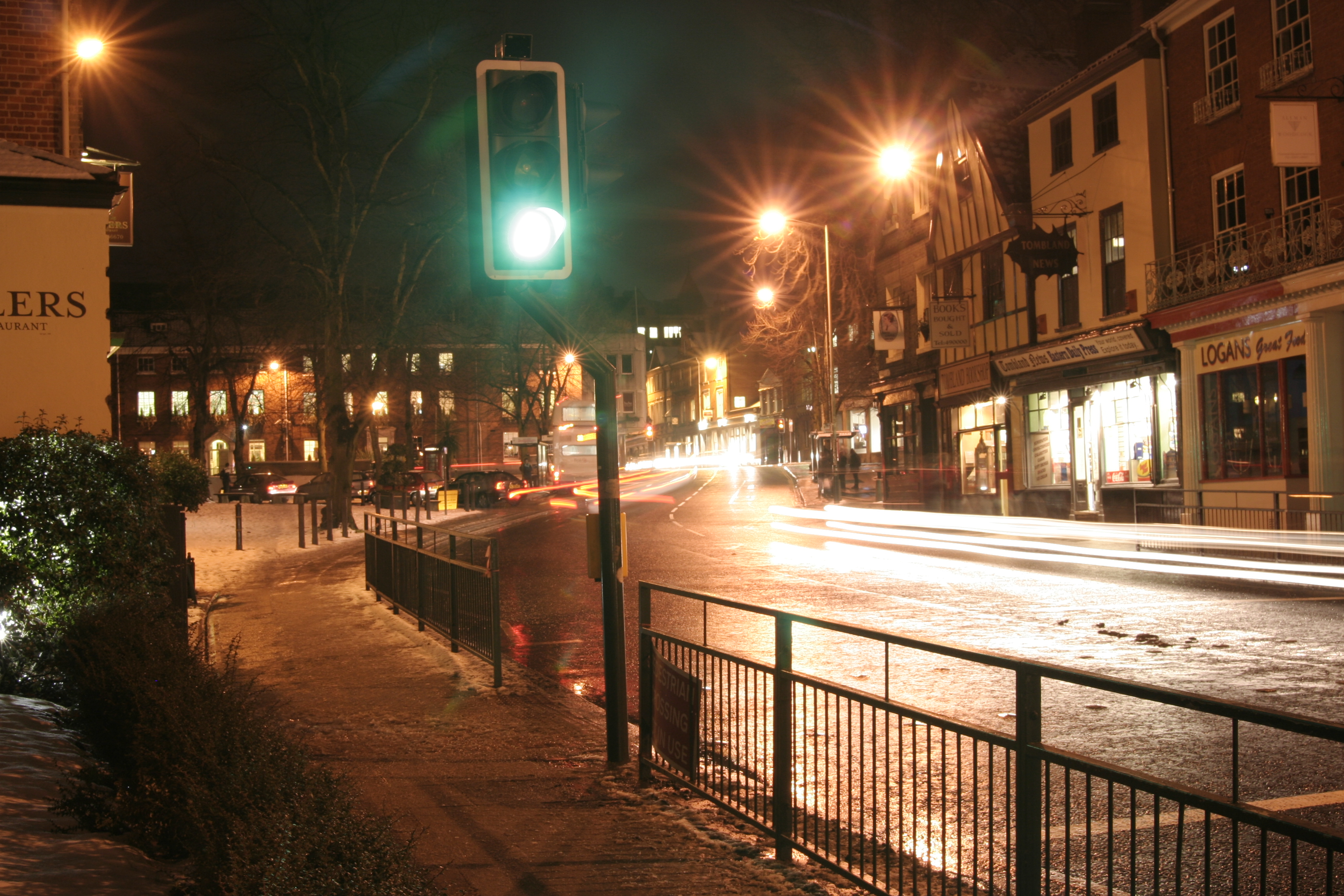 Tombland ("Empty Space"), Norwich; site of the original Norwich Market